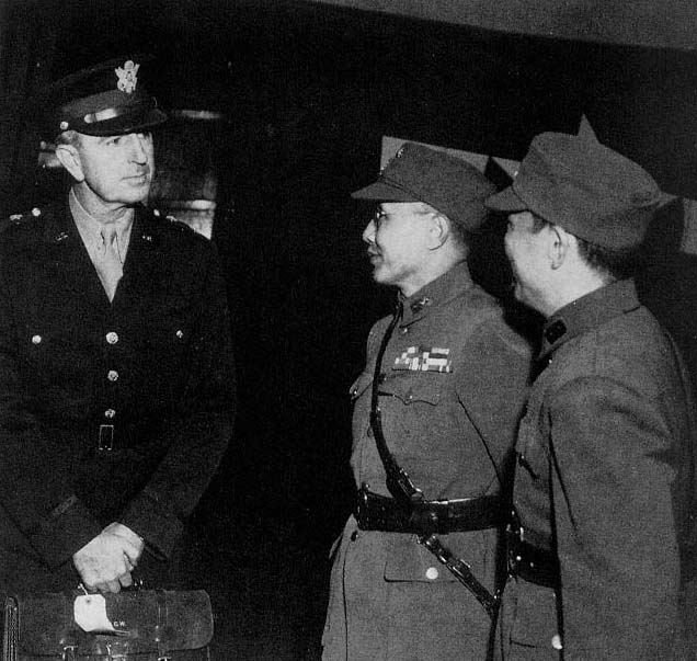 "General Wedemeyer arrives in Chungking in October 1944" found at this link: WWII: China Defensive]